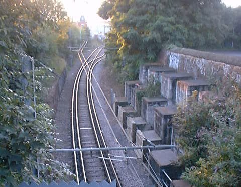 There has been a railway of some sort at this point since 1803, although not continuously, the Surrey Iron Railway having been at a higher level than the present tramway. In 1967 the wall on the right, which dates from the construction of the Wimbledon & Croydon Railway, was in danger of collapse and was shored up, initially with timber baulks, later with massive concrete buttresses. When Tramlink was constructed, rather than go to the expense of rebuilding the wall, the planners opted to use gauntlet track for this section.